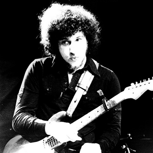 Guitarist Bob MARGOLIN in PARIS, France